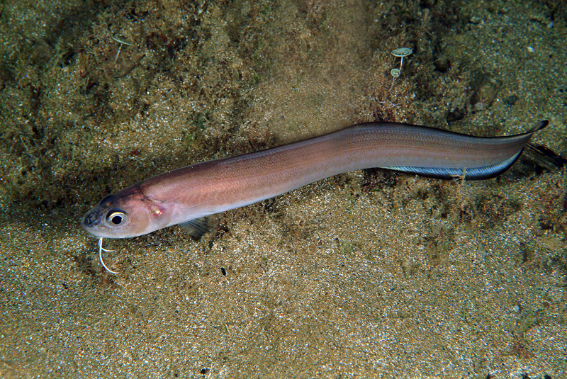 Ophidion barbatum photographed near Tuscany coast (Central Italy). Photo by Stefano Guerrieri.